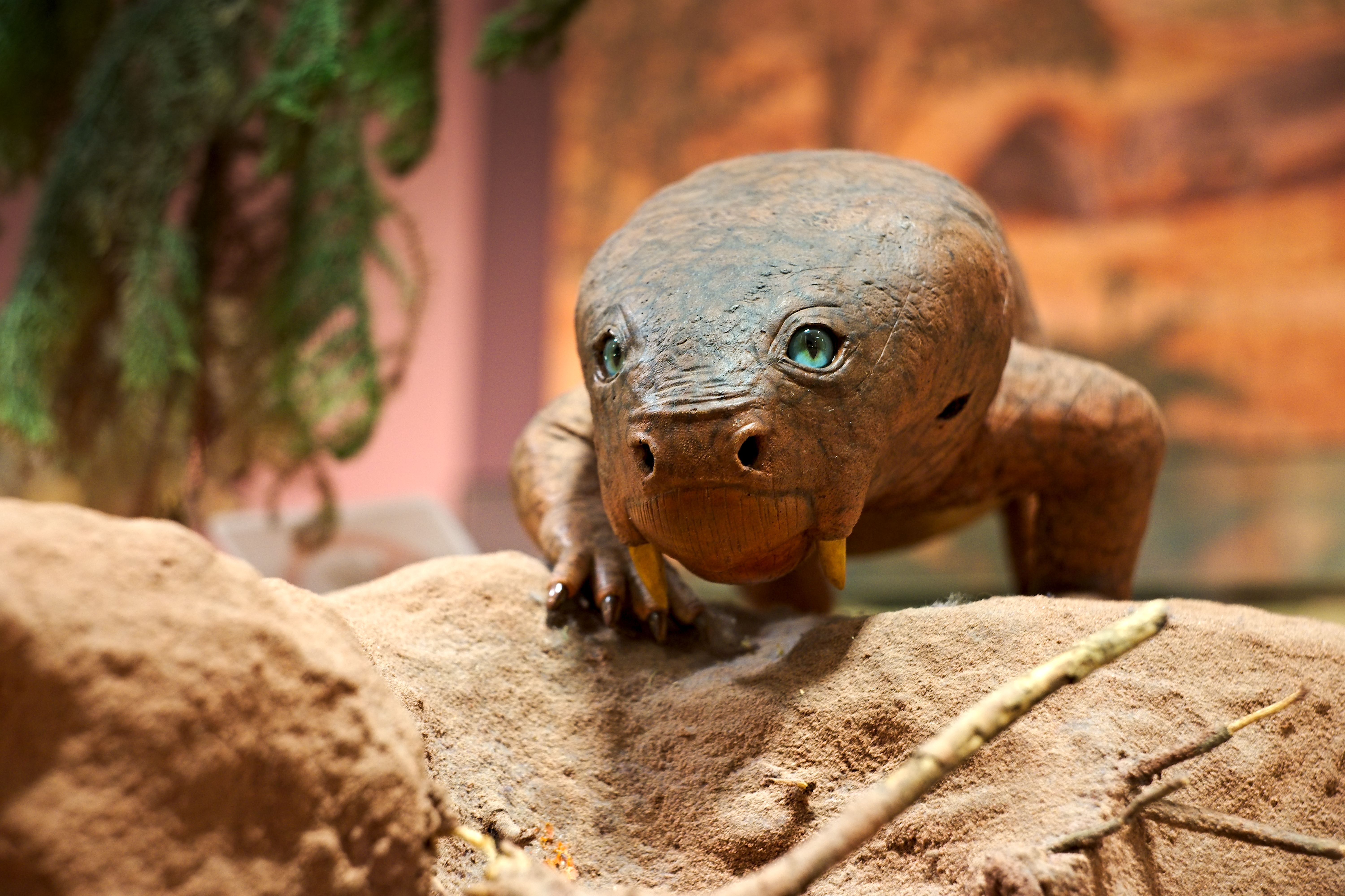 Diictodon, Diictodontidae; Perm, Model in life size; Staatliches Museum für Naturkunde Karlsruhe, Germany.